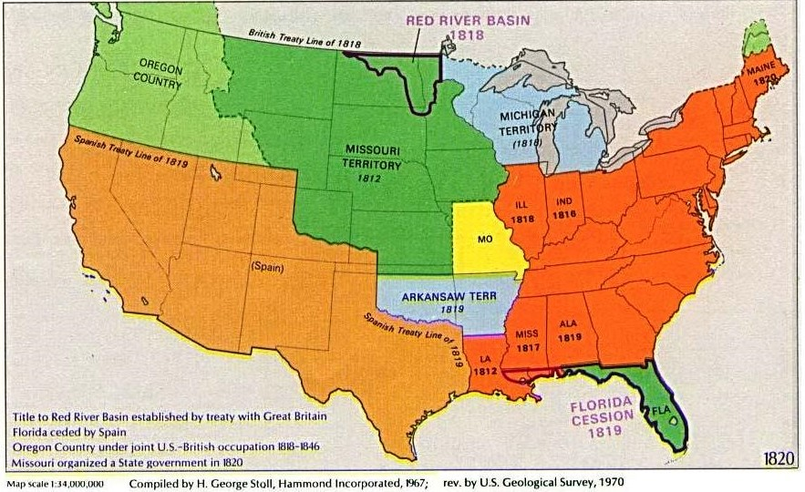 Cropped version of map.